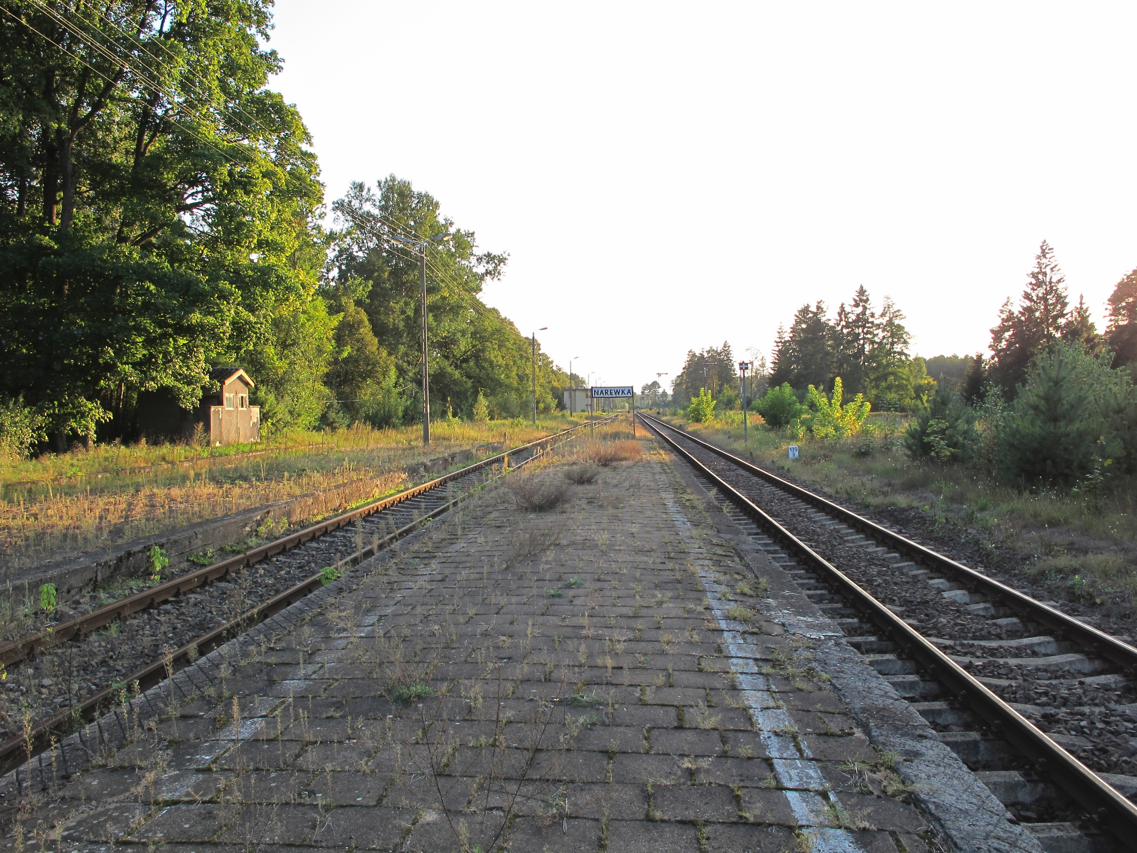 Narewka - train station in Planta village near Narewka, podlaskie, Poland